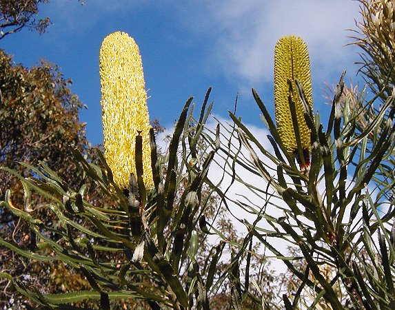 Banksia attenuata, Margaret River, Dec 2004 photo Cas Liber